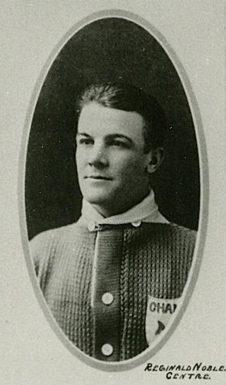 Reg Noble of the Toronto Arenas hockey club ca. 1917–18.